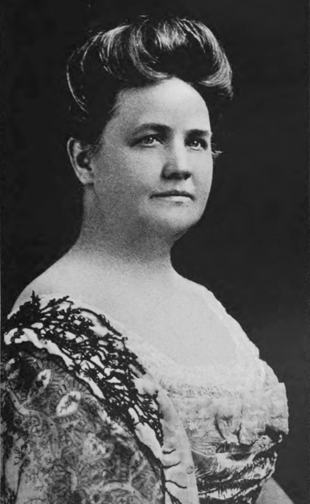 Julia A. P. Bundy, wife of Joseph B. Foraker and daughter of Hezekiah S. Bundy.